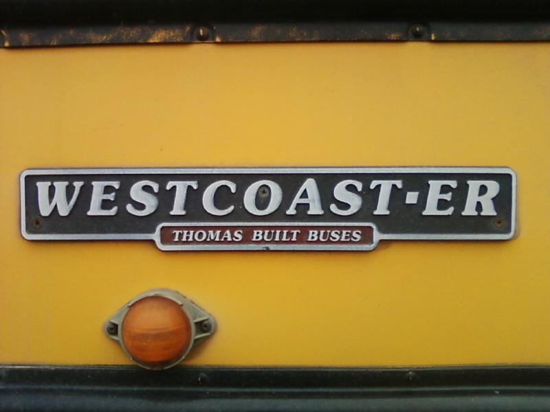 Westcoast-er Thomas Built Buses